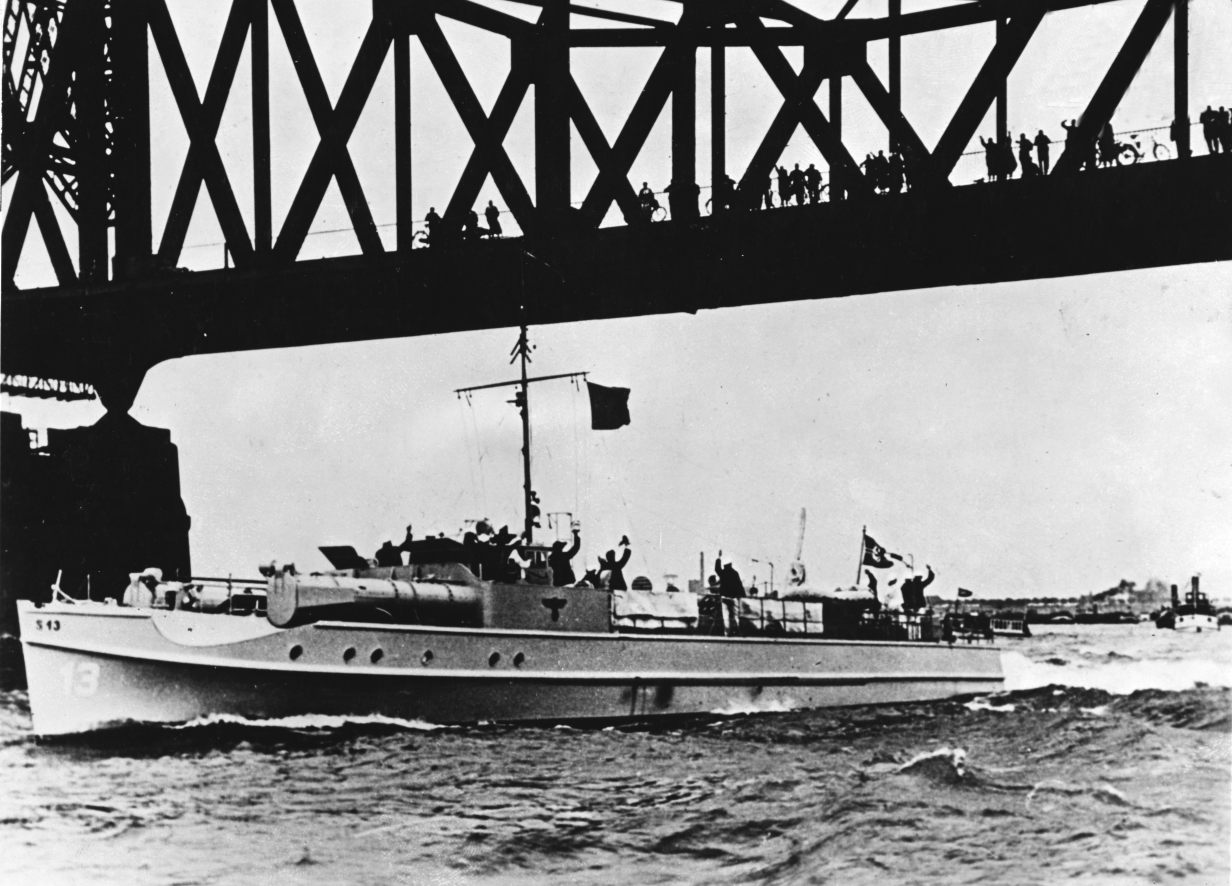 The German motor-torpedo boat S13 passing under a bridge, between 1935 and 1939. S9 to S13 were ordered in 1933, the last being comissioned in December 1935. All boats were assigned to the 1. Schnellbootflottille (1. SFltl)/(1st Motor Torpedo Boat Flotilla). S13 survived the Second World War. It was transferred to the United Kingdom in 1945 and subsequently scrapped.